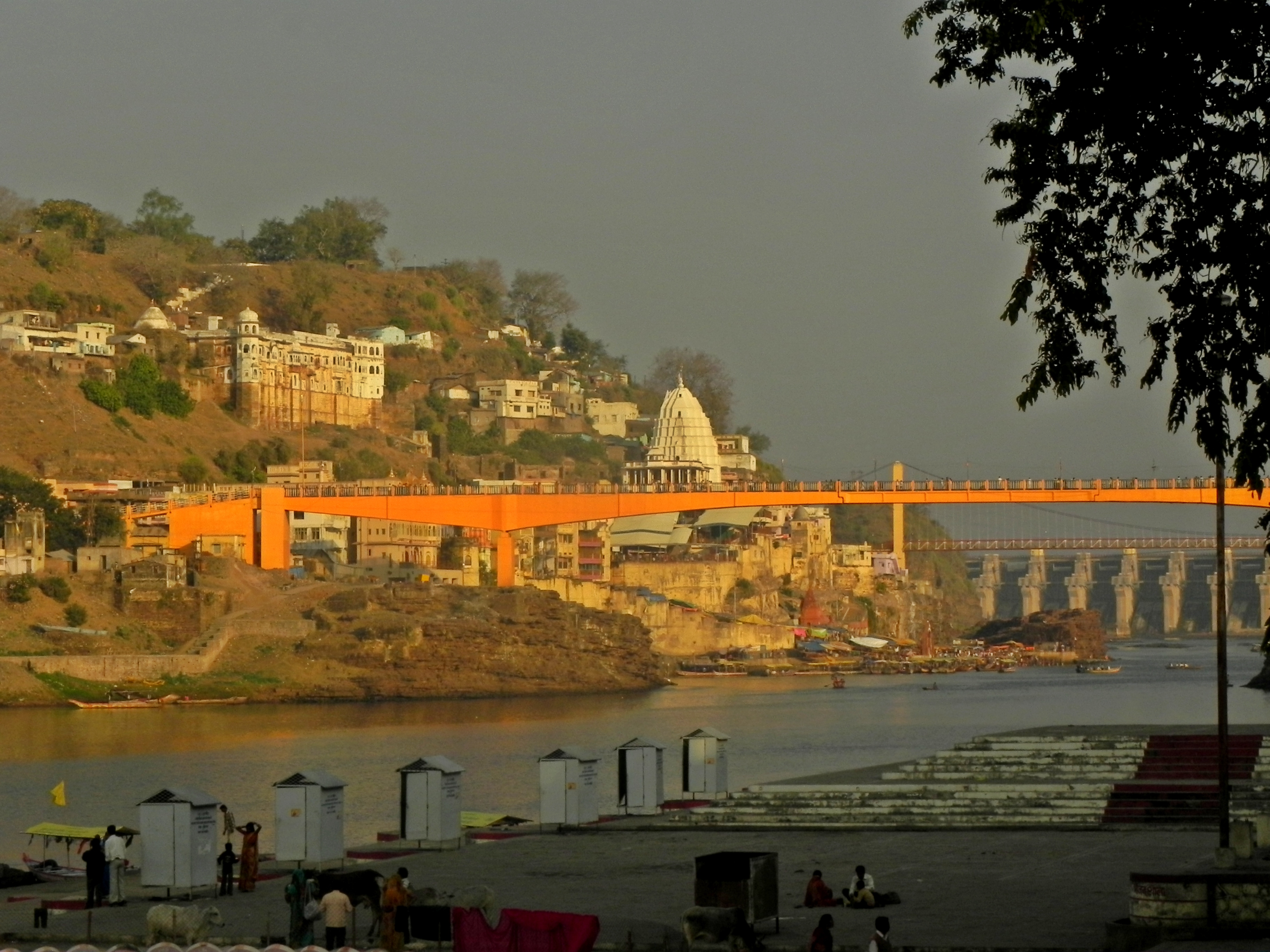 Narmada River und Dam, Omkareshwar